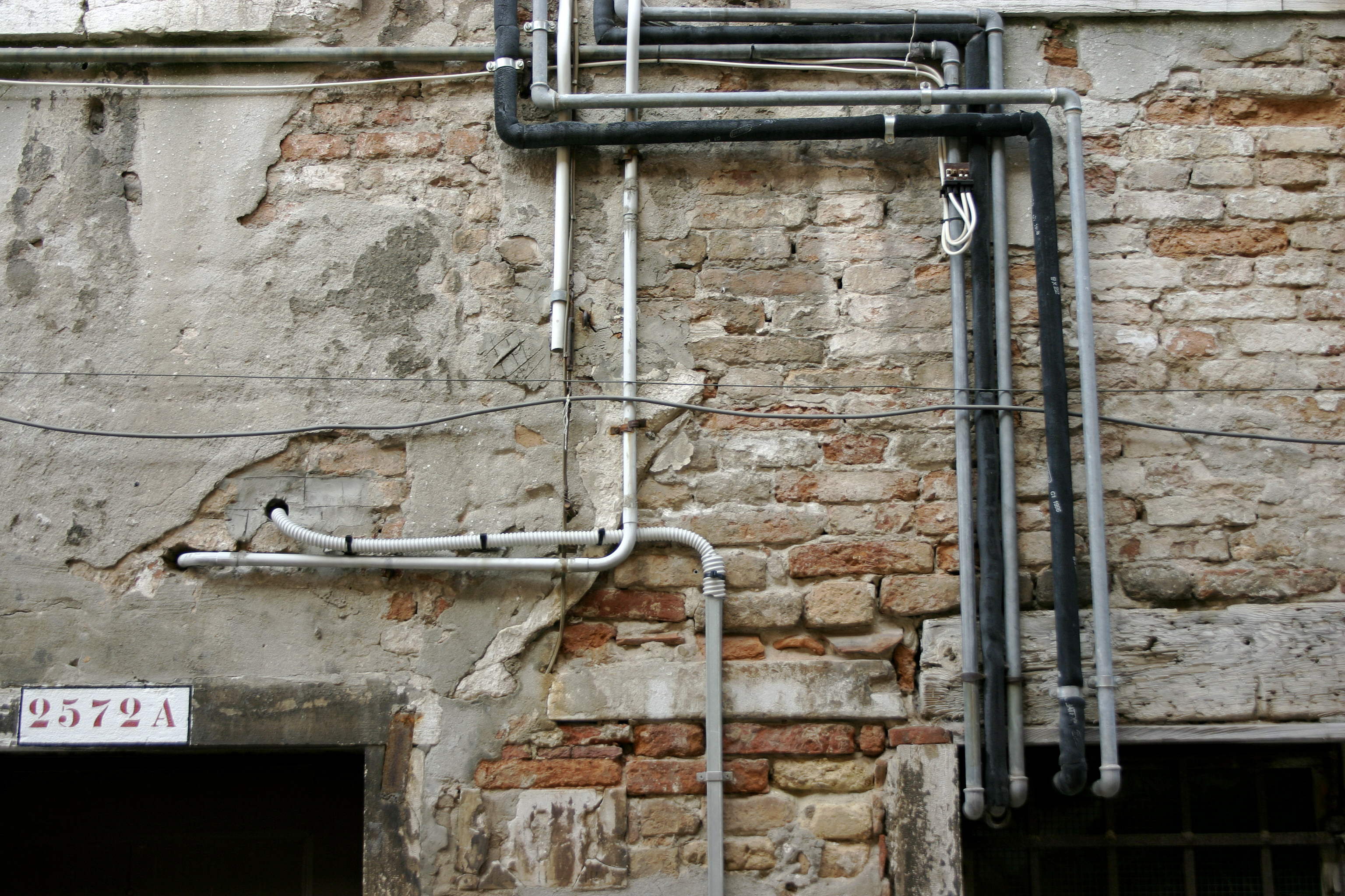 Venice – Piping